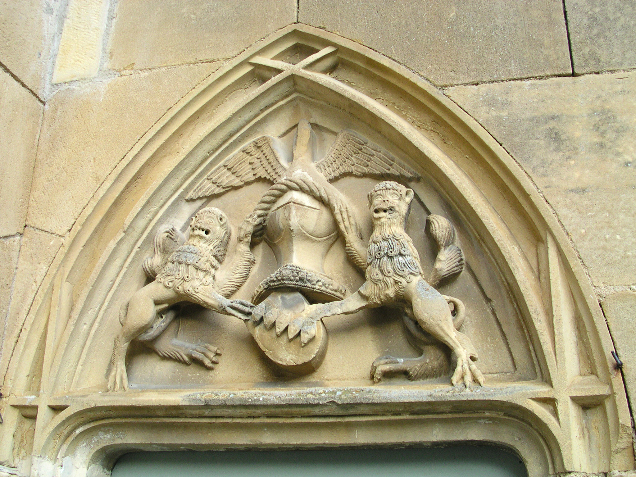 Seigneurial quarter in the village of Chanonat (Puy-de-Dôme, France).